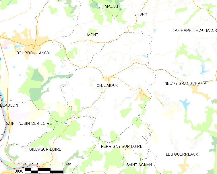 Map of French municipality